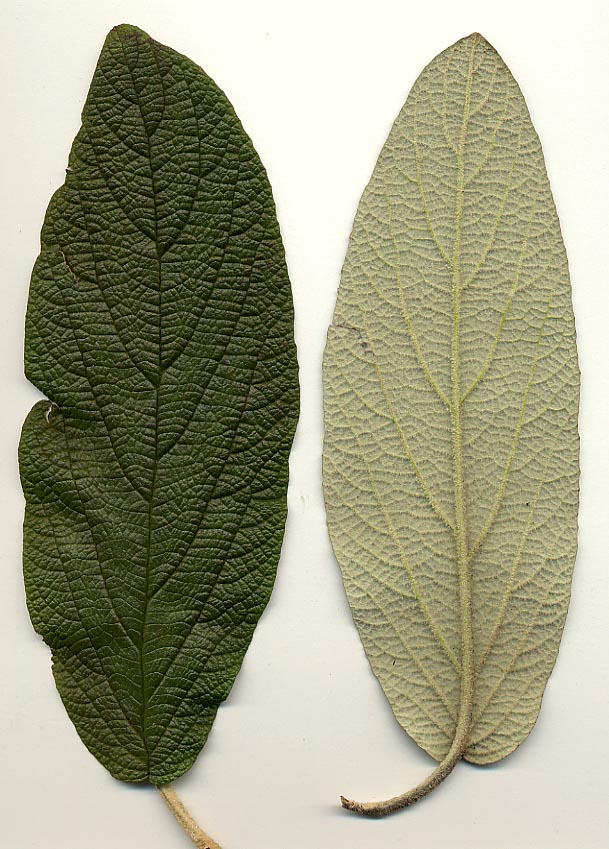 Viburnum rhytidophyllum leaves - upper side left, lower side right. Leaves are 23 cm long. Photo MPF.